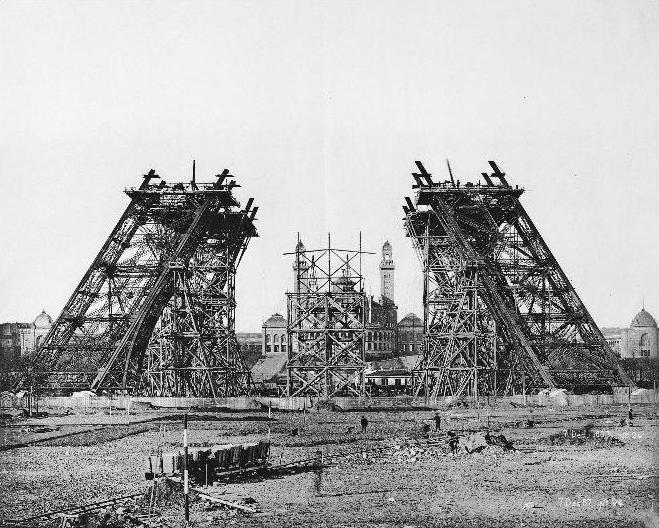 The Eiffel Tower still under construction.